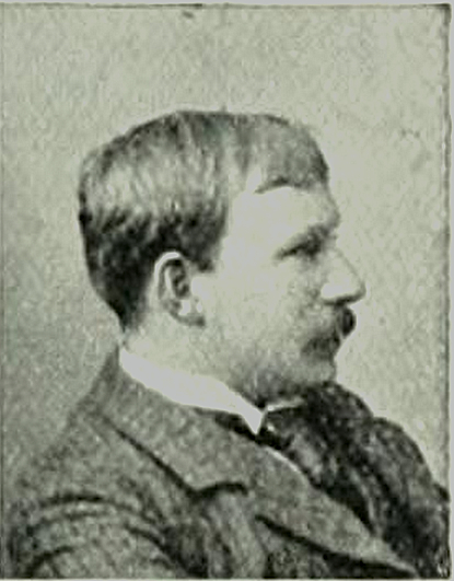 Print photo portrait of Eugène Lawrence Vail, from an advertisement published in mars 1900, courtesy of Galerie Georges Petit (Paris).